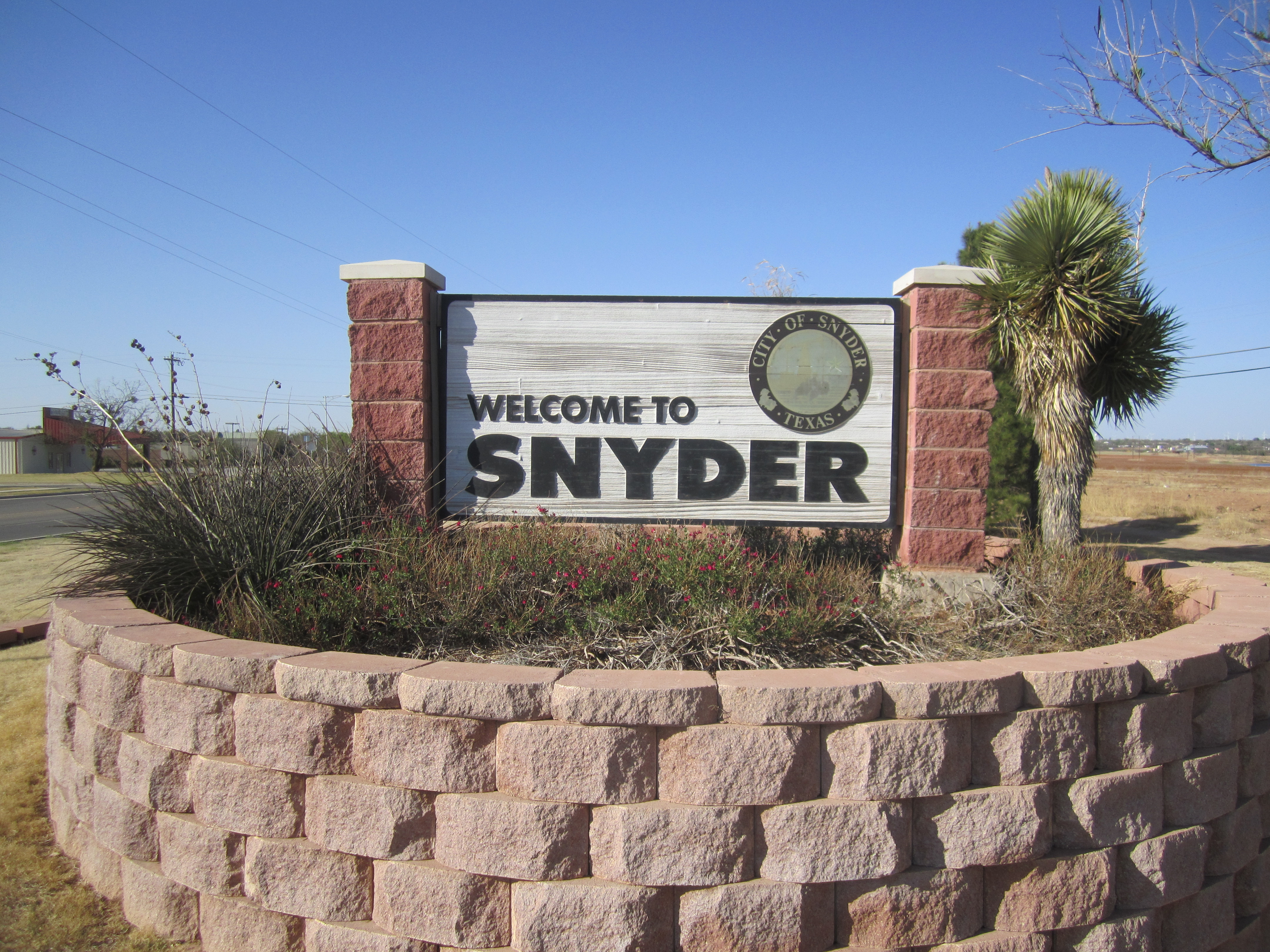 I took photo in Snyder, TX, with Canon camera.